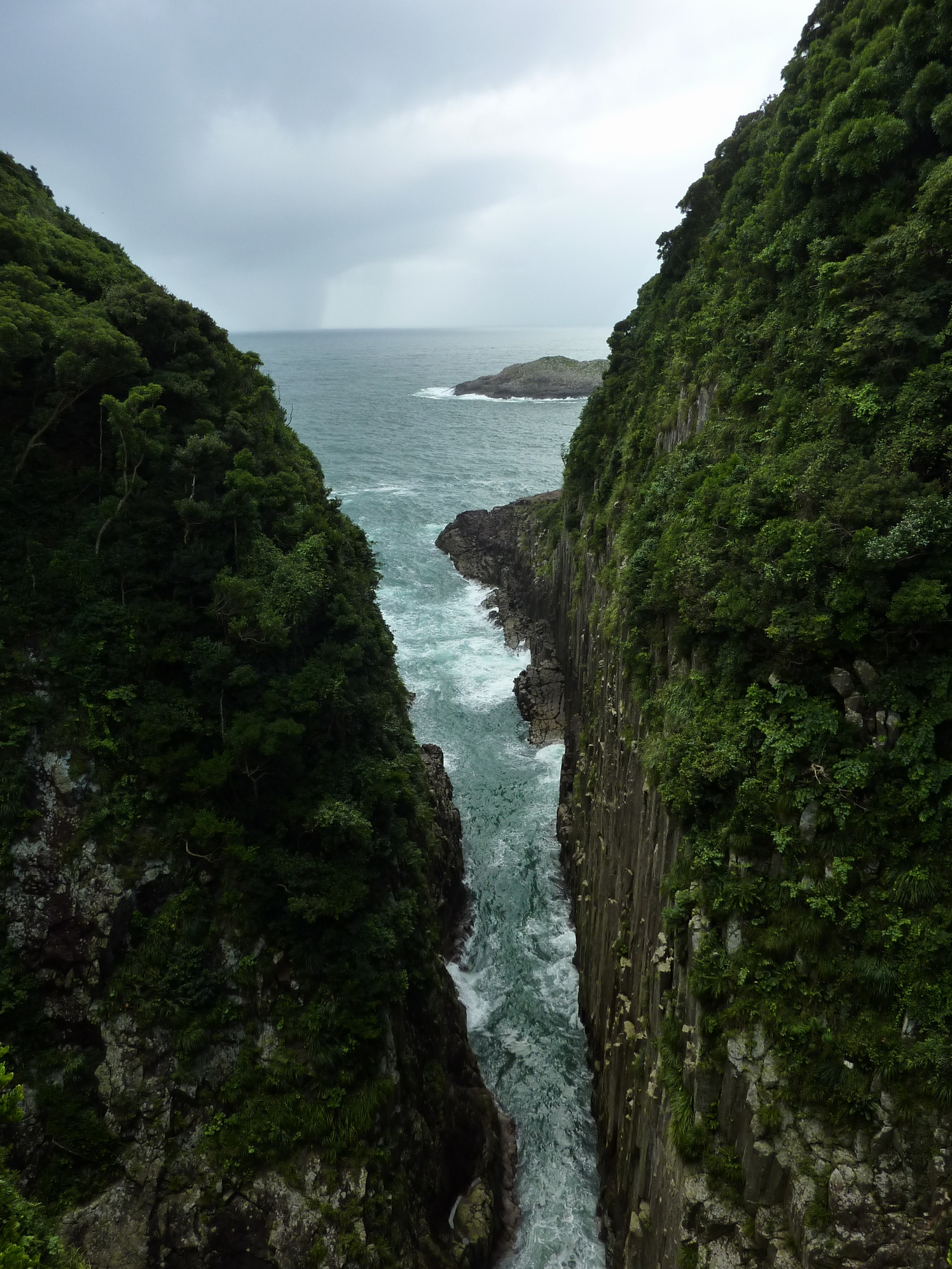 Umagase (Hyuga-nada Ocean) is in Hyuga City, Miyazaki Prefecture, Japan.